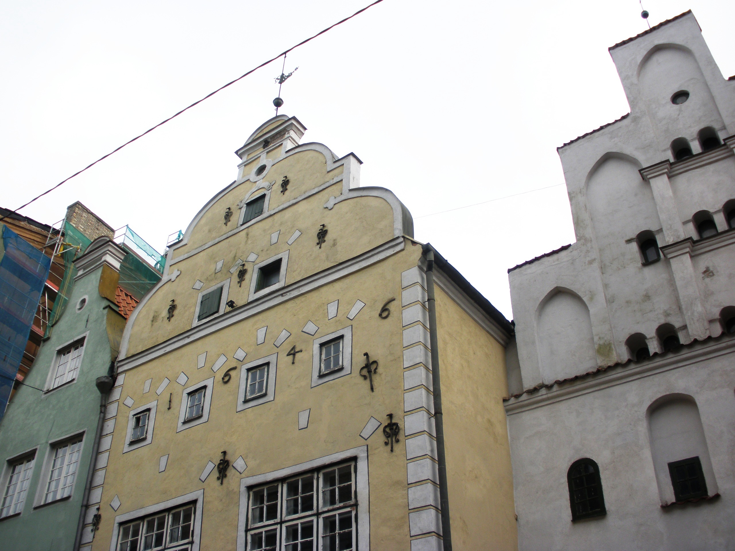 The Three Brothers in Riga, Latvia